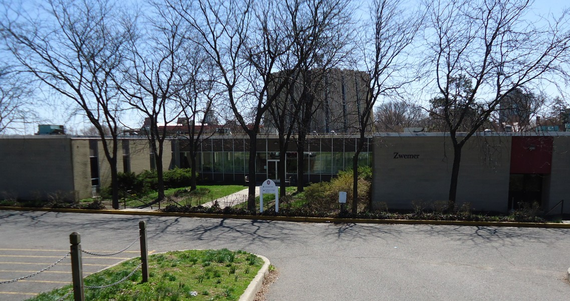 Rutgers University, College Avenue campus, view behind the art museum.